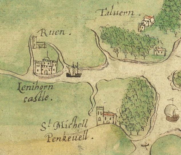 Lanihorne Castle, Ruan, Tolverne and St Michael Penkevil from a 1597 map of Falmouth Haven, Cornwall. Kernowek: Dyworth mappa 1597 a Vorlynn an Garrek, Kernow.